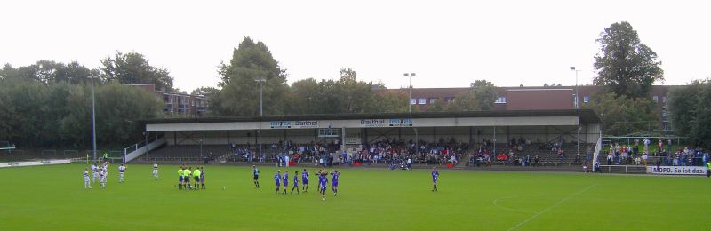 Stadium "Adolf-Jäger-Kampfbahn" - homeground of the football club Altonaer FC von 1893 in Hamburg, Germany. View from the back strait in the north to the main bridge in the south. Photo taken by Mghamburg during the fourth ligue match Altonaer FC von 1893 vs. VfR Neumünster, 1st October 2006 (Attendance: 1150).